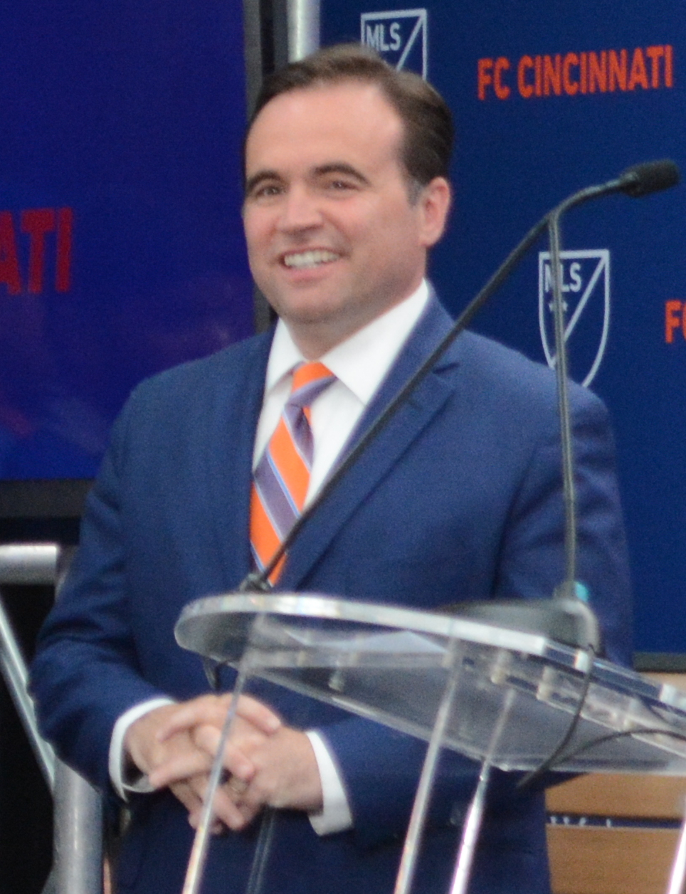 This photo was taken at an FC Cincinnati (FCC) event at Rhinegeist Brewery in Over-the-Rhine, Cincinnati, Ohio, USA on May 29, 2018. At the event, Major League Soccer commissioner Don Garber officially awarded an MLS franchise to FCC. Other speakers at the event included FCC general manager Jeff Berding, FCC owner and CEO Carl Lindner III, Cincinnati mayor John Cranley, and ESPN soccer commentators Adrian Healey and Taylor Twellman. The event was simultaneously livestreamed to a public party at Fountain Square in downtown Cincinnati.